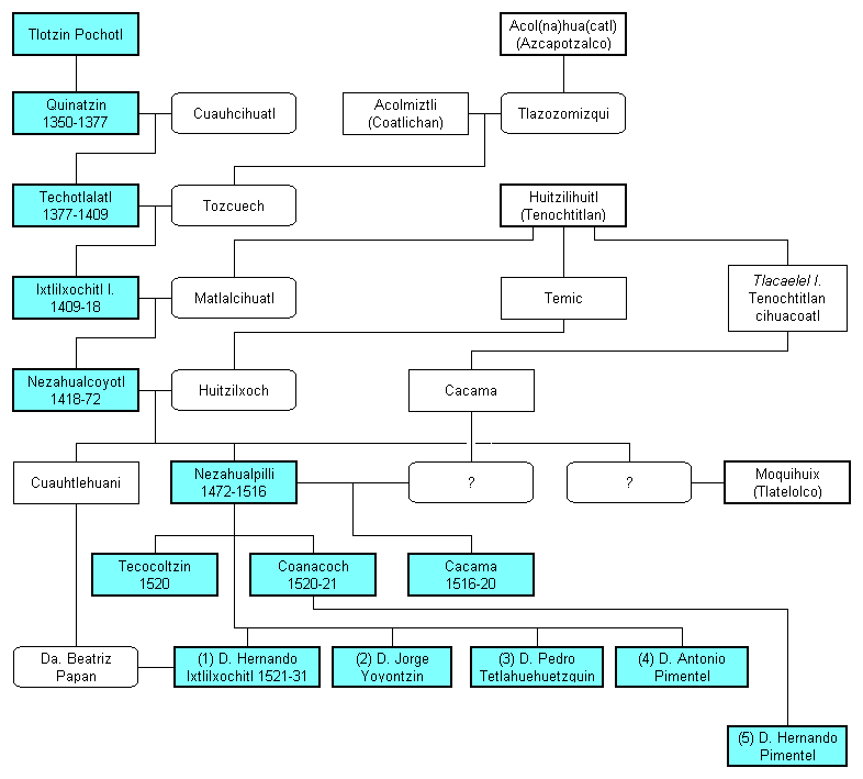 Genealogy of Tetzcoco (Acolhuacan) rulers.